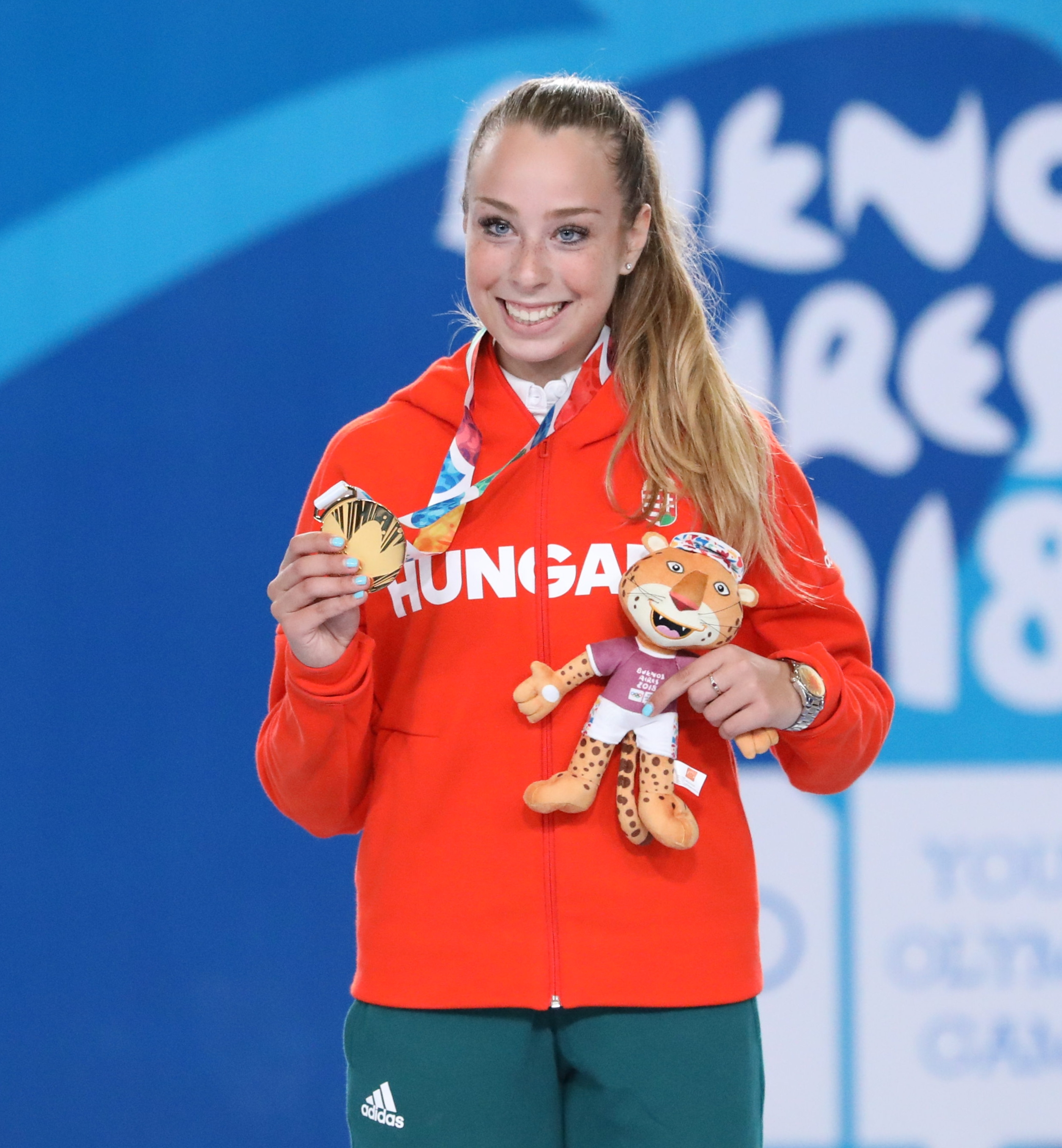 Girls' sabre, Victory ceremony: Liza Pusztai (Gold medal)